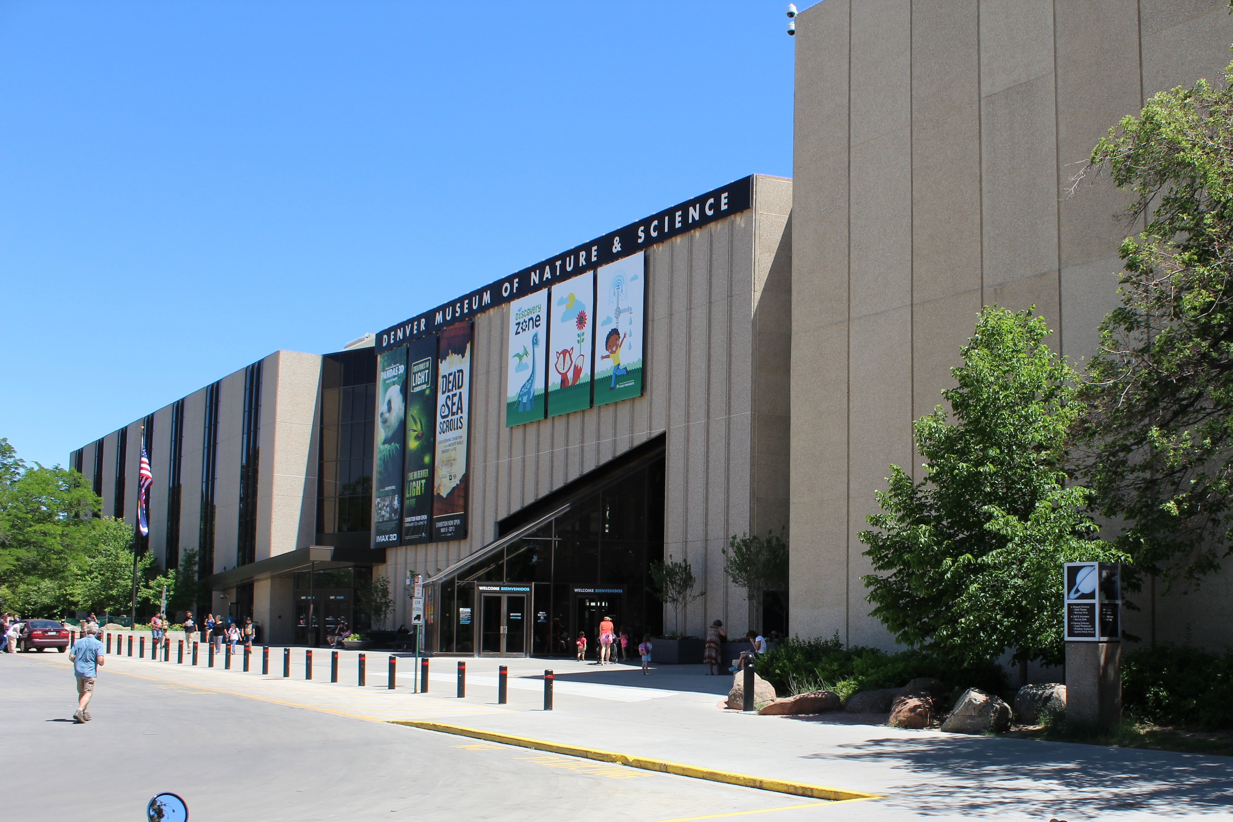 Denver Museum of Nature and Science. View from north-west.